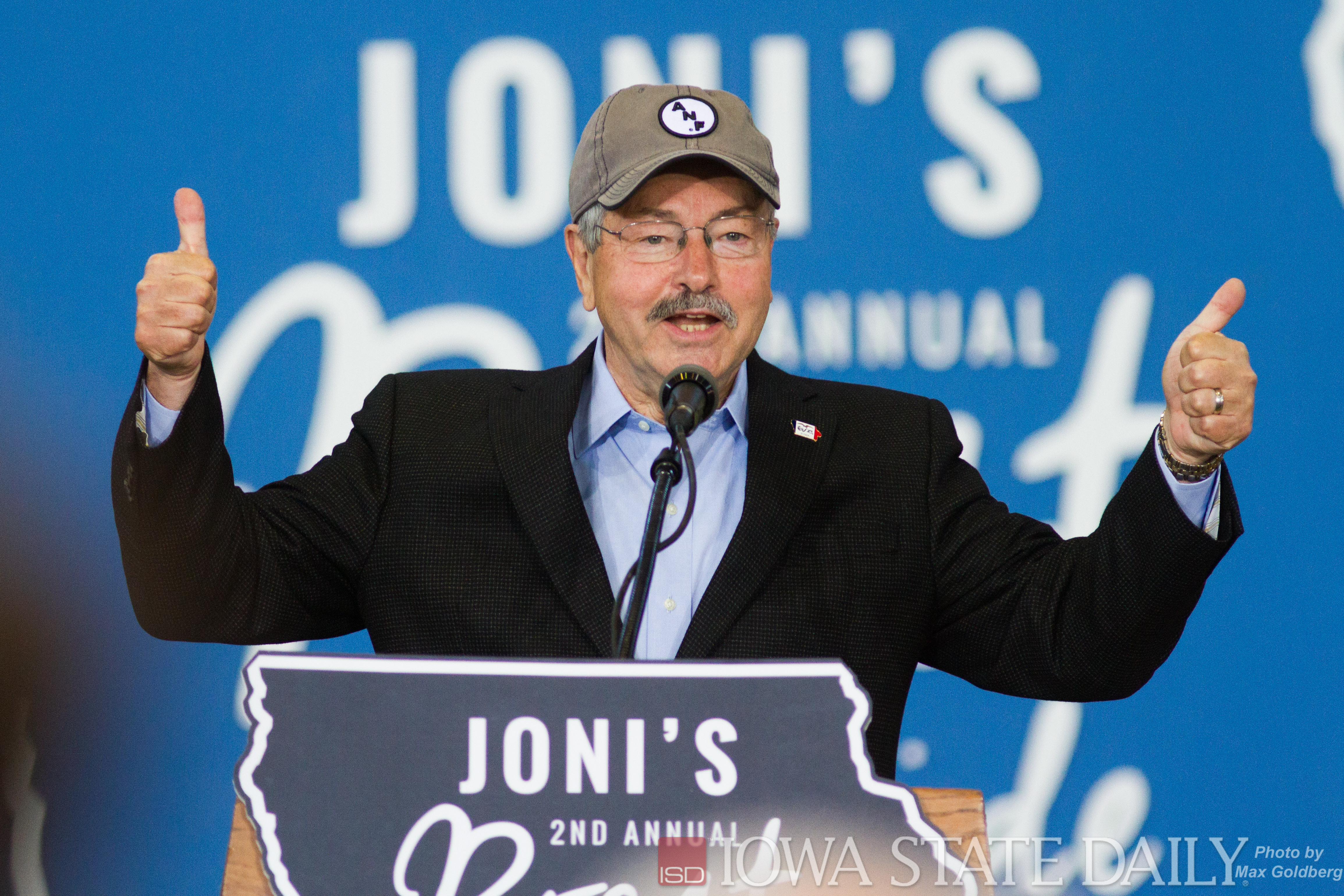 Terry Branstad 2016 Roast and Ride, hosted by Sen. Joni Ernst. This image contains digital watermarking or credits in the image itself. The usage of visible watermarks is discouraged. If a non-watermarked version of the image is available, please upload it under the same file name and then remove this template. Ensure that removed information is present in the image description page and replace this template with metadata from image or attribution metadata from licensed image . Caution: Before removing a watermark from a copyrighted image, please read the WMF's analysis of the legal ramifications of doing so, as well as Commons' proposed policy regarding watermarks. If the old version is still useful, for example if removing the watermark damages the image significantly, upload the new version under a different title so that both can be used. After uploading the non-watermarked version, replace this template with superseded|new filename|version without watermarks .